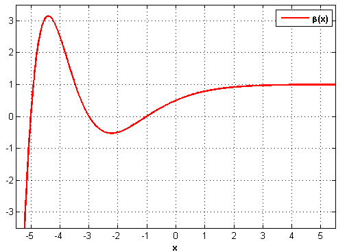 Plot of Dirichlet beta-function of real argument